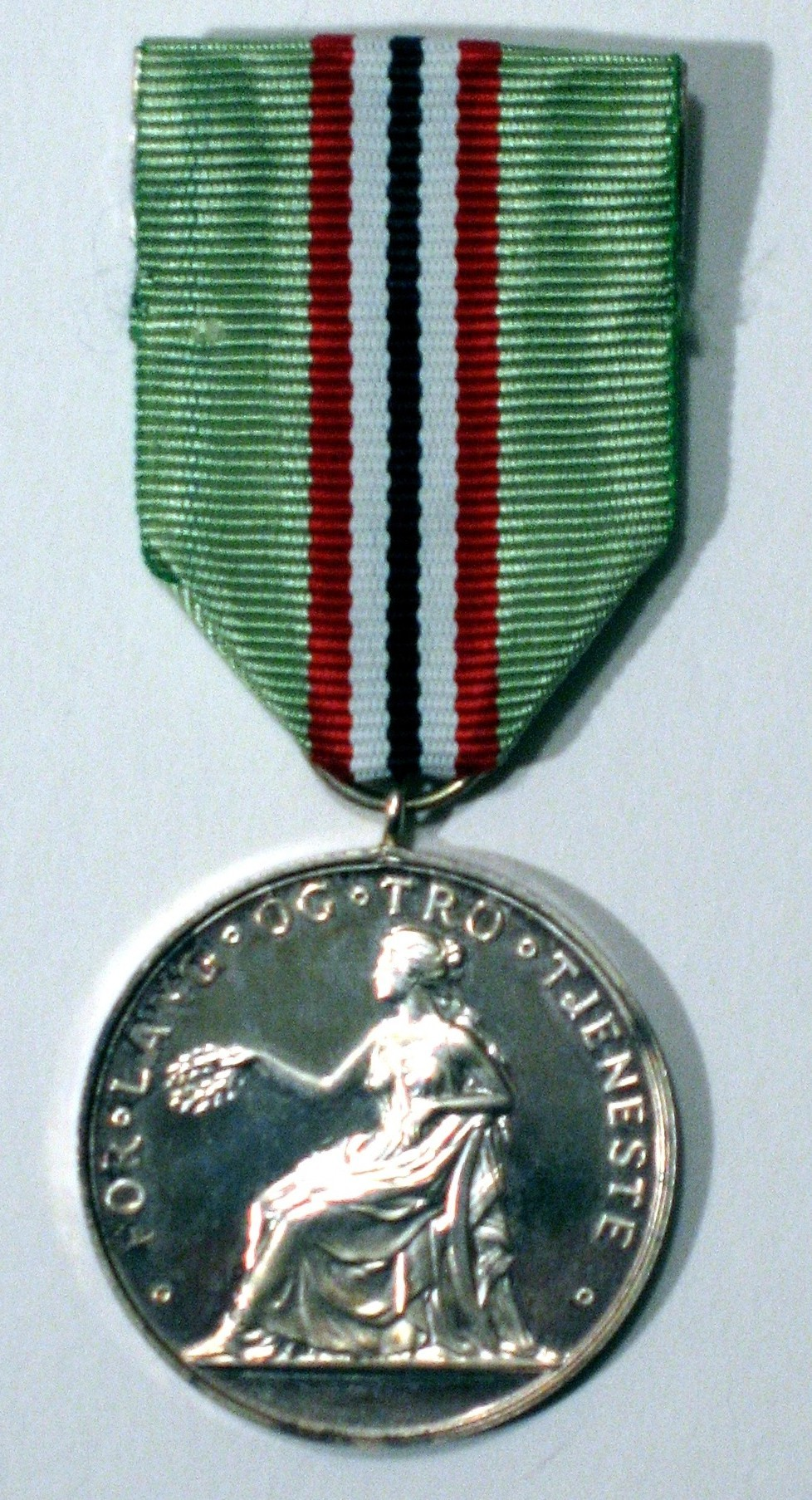 Medal for long and faithful service of Det Kongelige Selskap for Norges Vel (The Royal Norwegian Society for Development). Obverse. Silver. Awarded 1986.